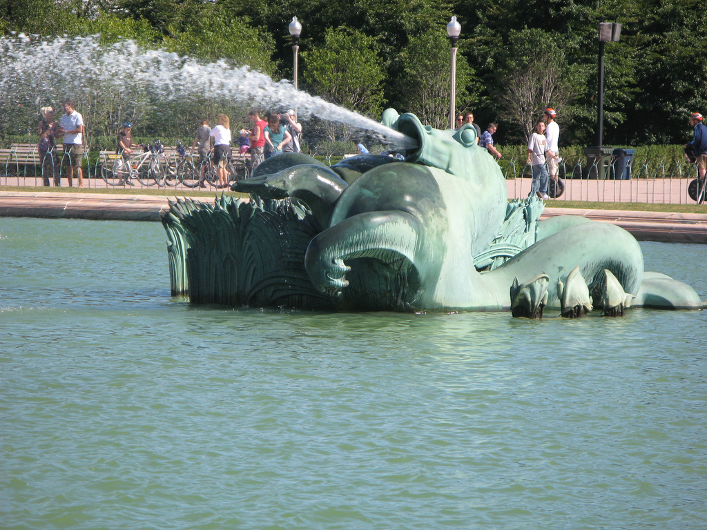 Seahorse on Buckingham Fountain, bronze sculpture by french sculptor Marcel Loyau (1895-1936).